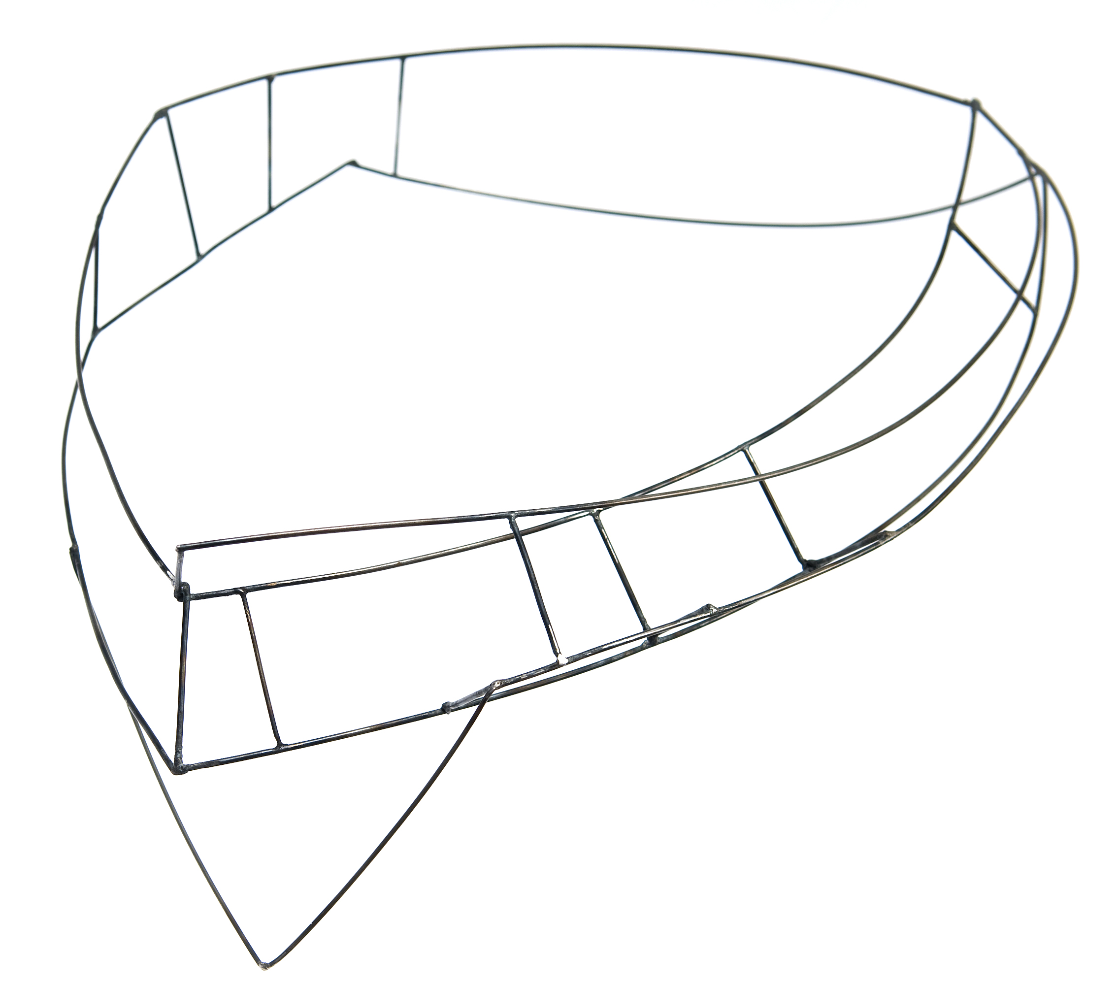 Steel Necklace by Kadi Kübarsepp made 2011.